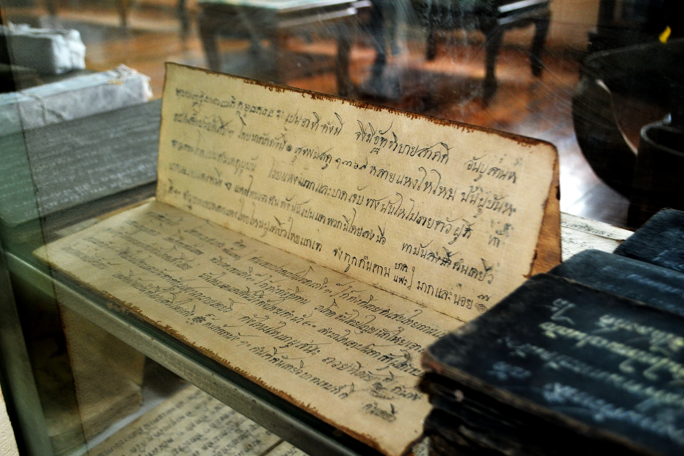 Samut_Khoi- Wat Kungtapao Folk Museum. Wat Khung Taphao, Ban Khung Taphao, Khung Taphao subdistrict, Mueang Uttaradit, Uttaradit Province, Thailand.